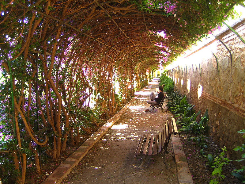 Jardí de Monfort, Valencia